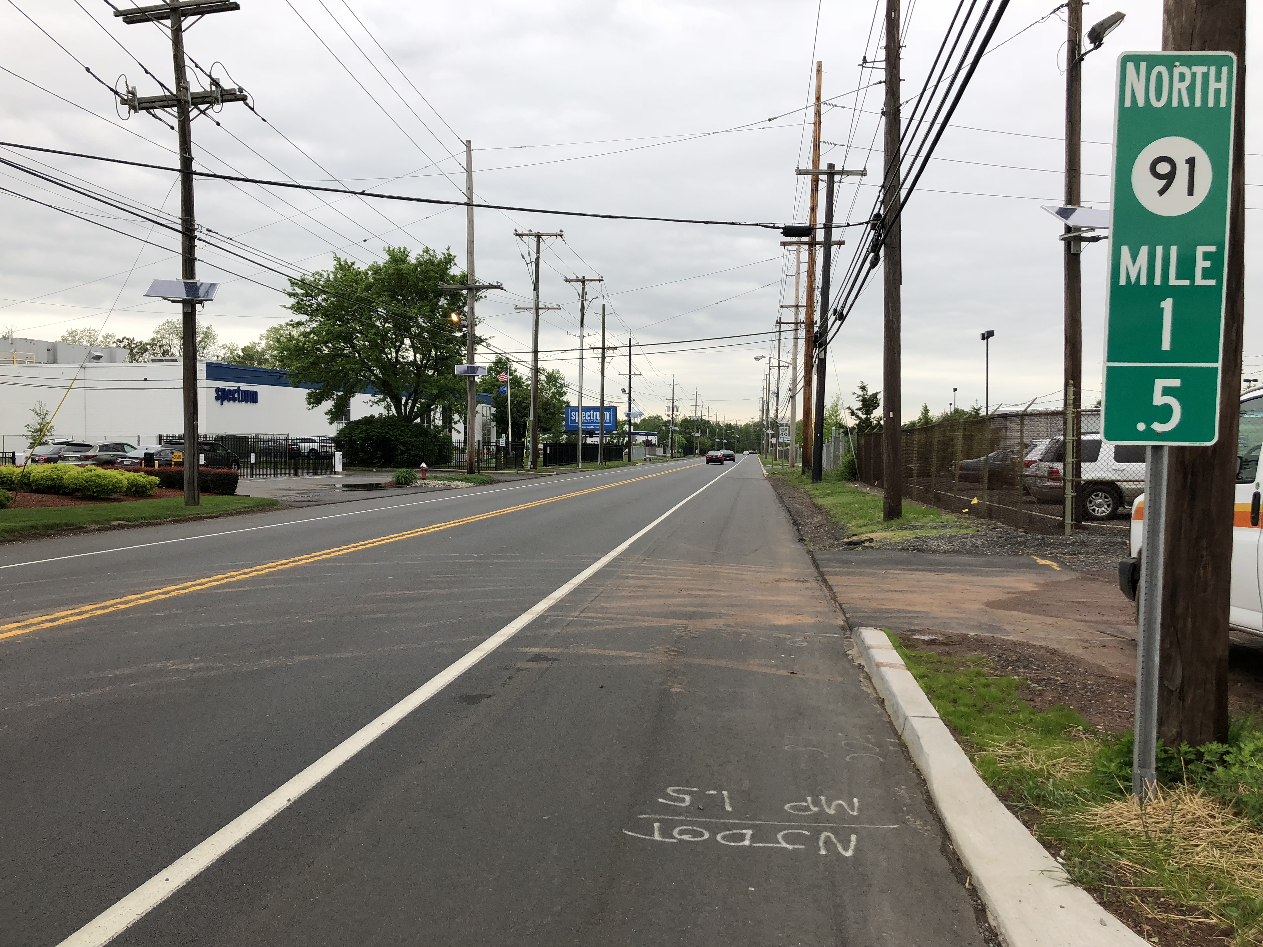 View north along New Jersey State Route 91 (Jersey Avenue) at Jules Lane in New Brunswick, Middlesex County, New Jersey